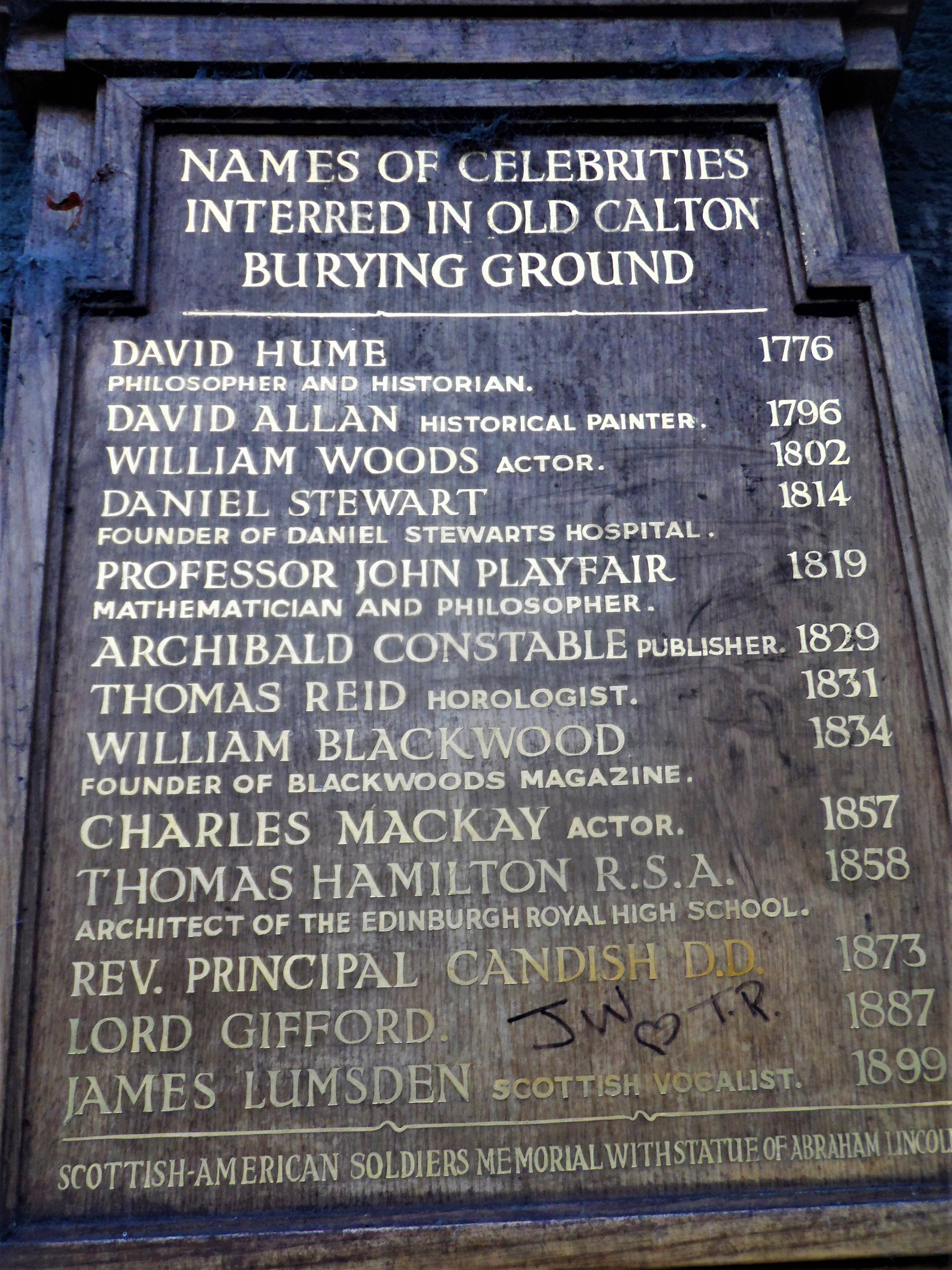 Old Calton notables